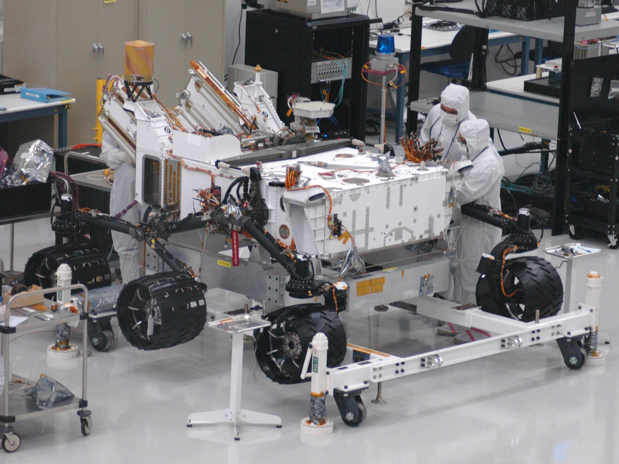 Mars rover Curiosity, the centerpiece of NASA's Mars Science Laboratory mission, is coming together for extensive testing prior to its late 2011 launch. This image taken June 29, 2010, shows the rover with the mobility system -- wheels and suspension -- in place after installation on June 28 and 29. Spacecraft engineers and technicians are assembling and testing the rover in a large clean room at NASA's Jet Propulsion Laboratory, Pasadena, Calif. Curiosity's six-wheel mobility system, with a rocker-bogie suspension system, resembles the systems on earlier, smaller Mars rovers, but for Curiosity, the wheels will also serve as landing gear. Each wheel is half a meter (20 inches) in diameter.